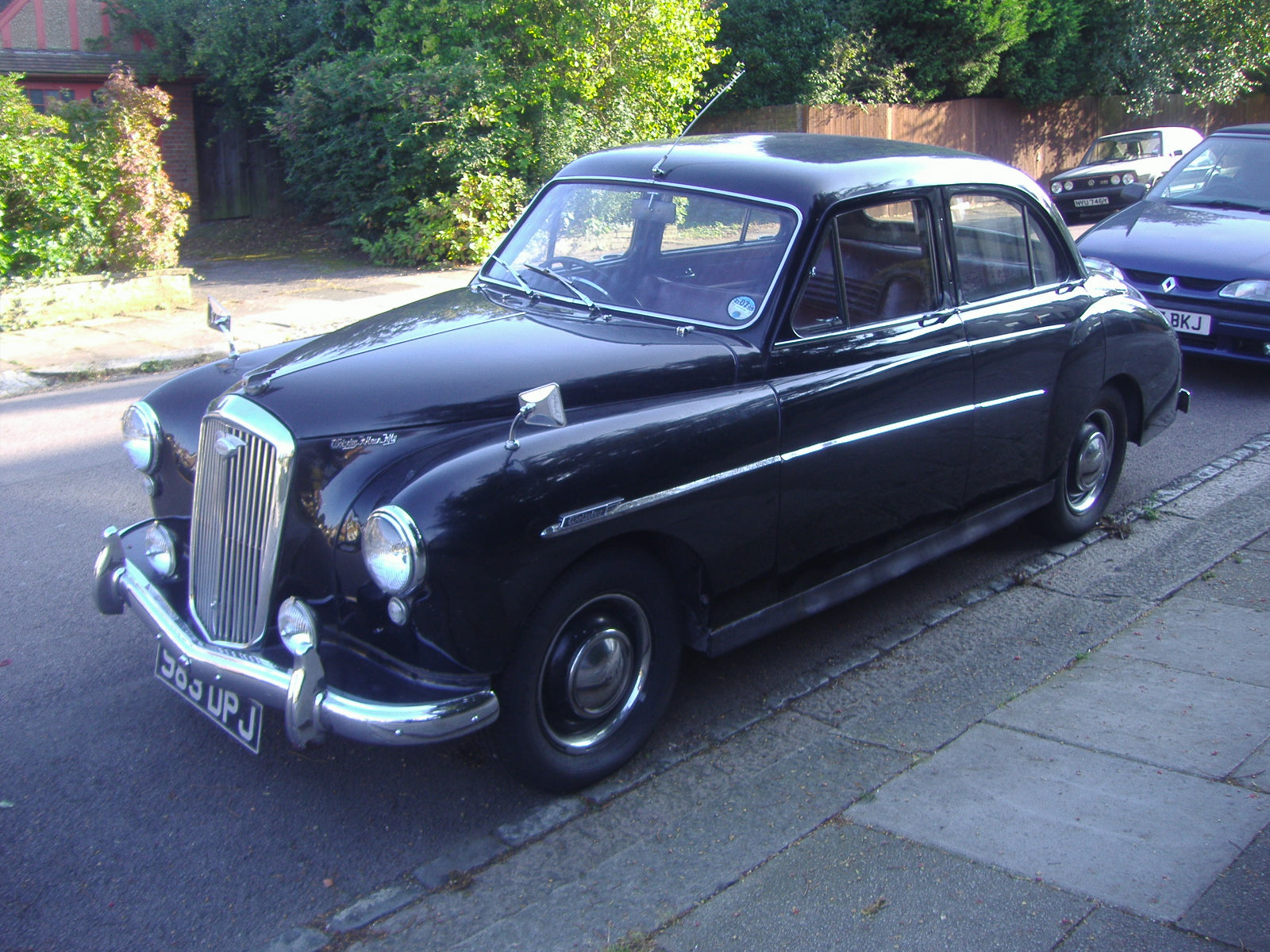 This has to be one of the best looking car designs ever made. Compare it with the total anonymous crap we have to look at nowadays.